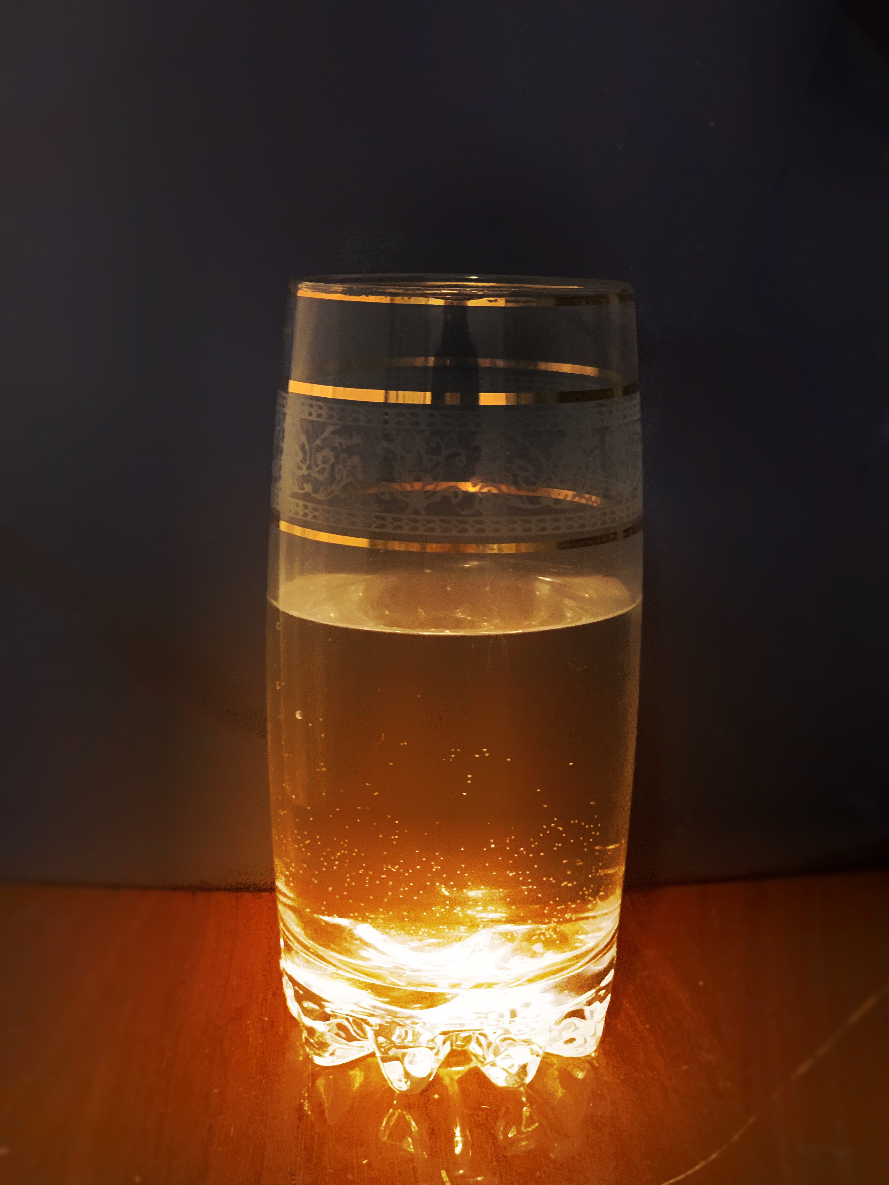 A glass of water that's half full. Lighting is on the more full part.